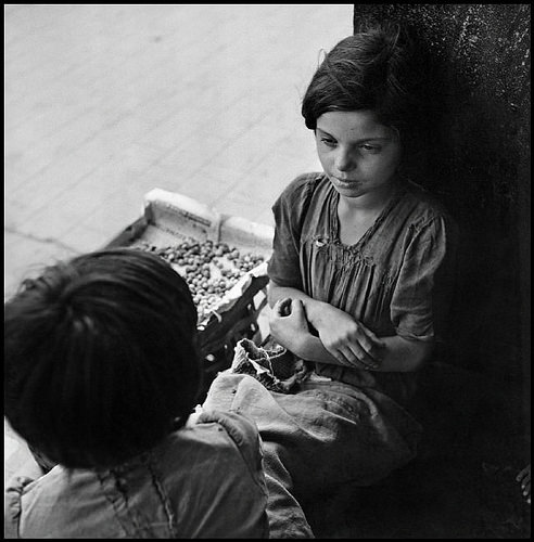 “Children In Naples, Italy”. Little girl selling beans. Photographed by Lieutenant Wayne Miller, July 1944. U.S. Navy Photograph, now in the collections of the National Archives.